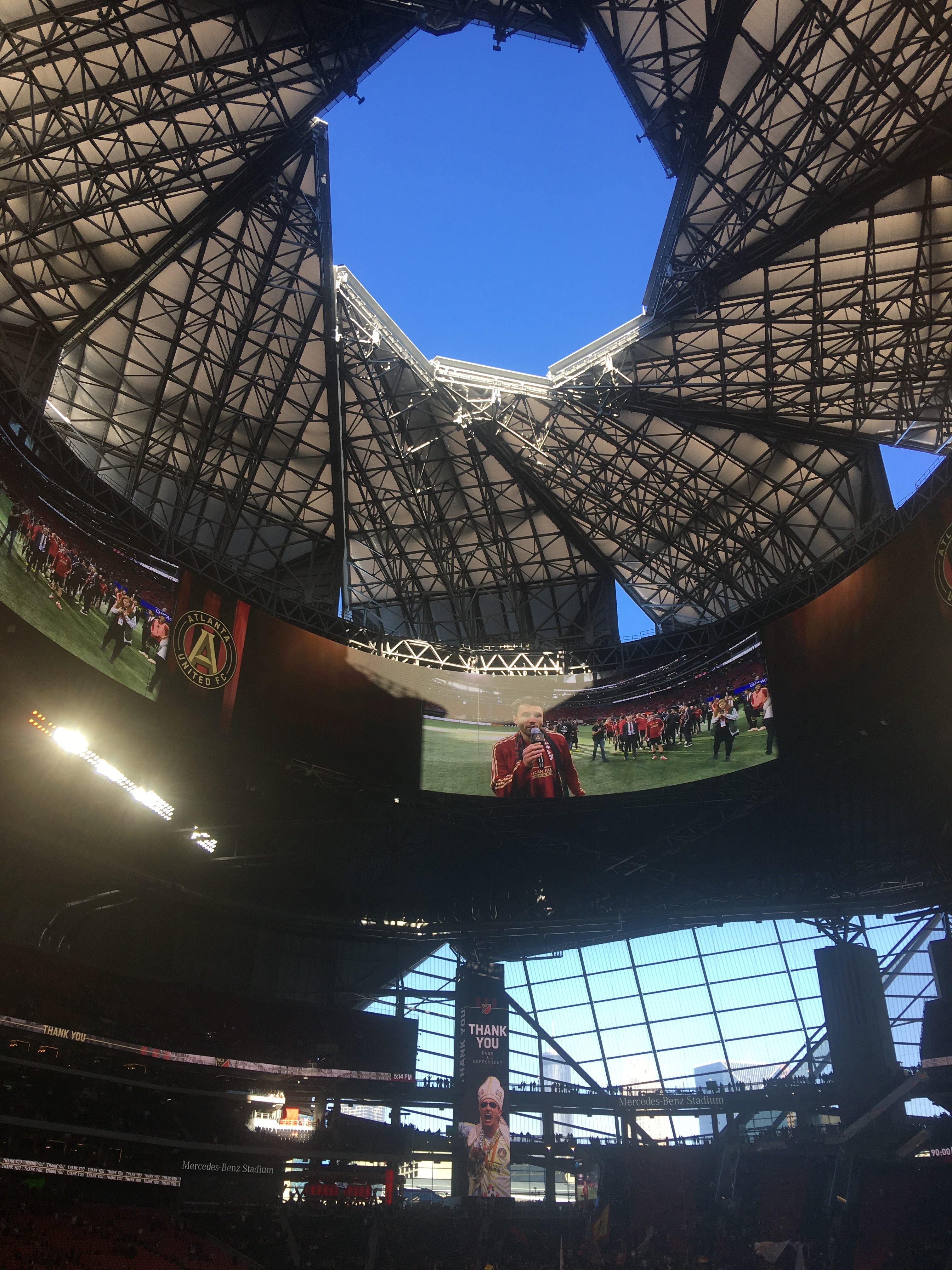 Mercedes-Benz Stadium Roof Atlanta United 2018-10-21